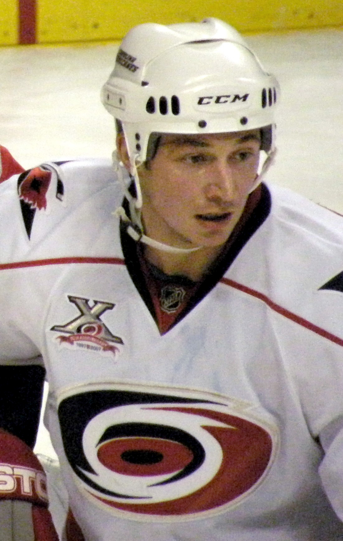 Frantisek Kaberle